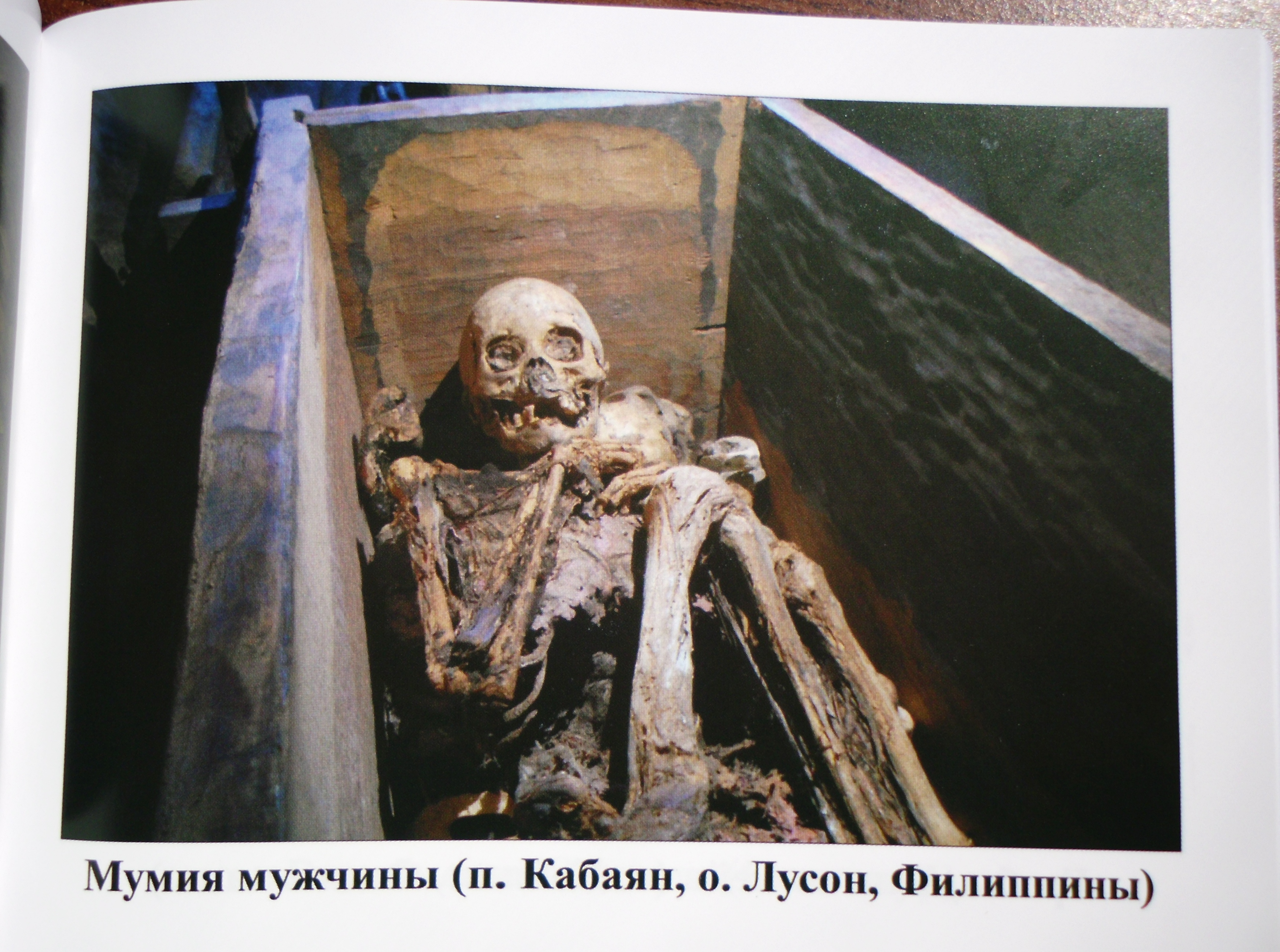 Philippines. Photo from V. Pinchuk's book “Two months of wanderings and 14 days unfreedom,” ISBN 978-5-9909912-5-5